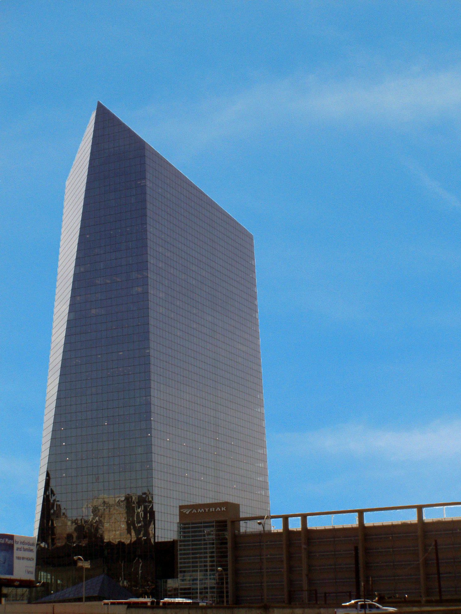 Taken in Philadelphia, Pennsylvania, in April 2006. The eastern aspect of the Cira Centre in Philadelphia.